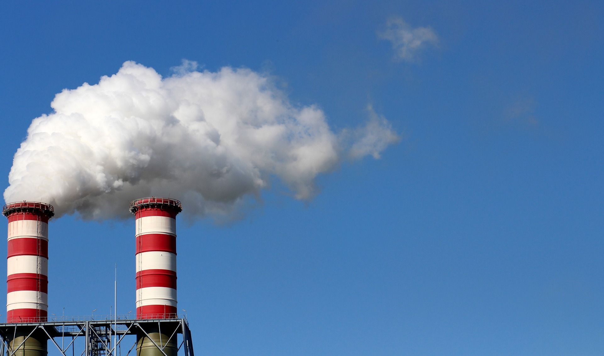 Smoke Pollution